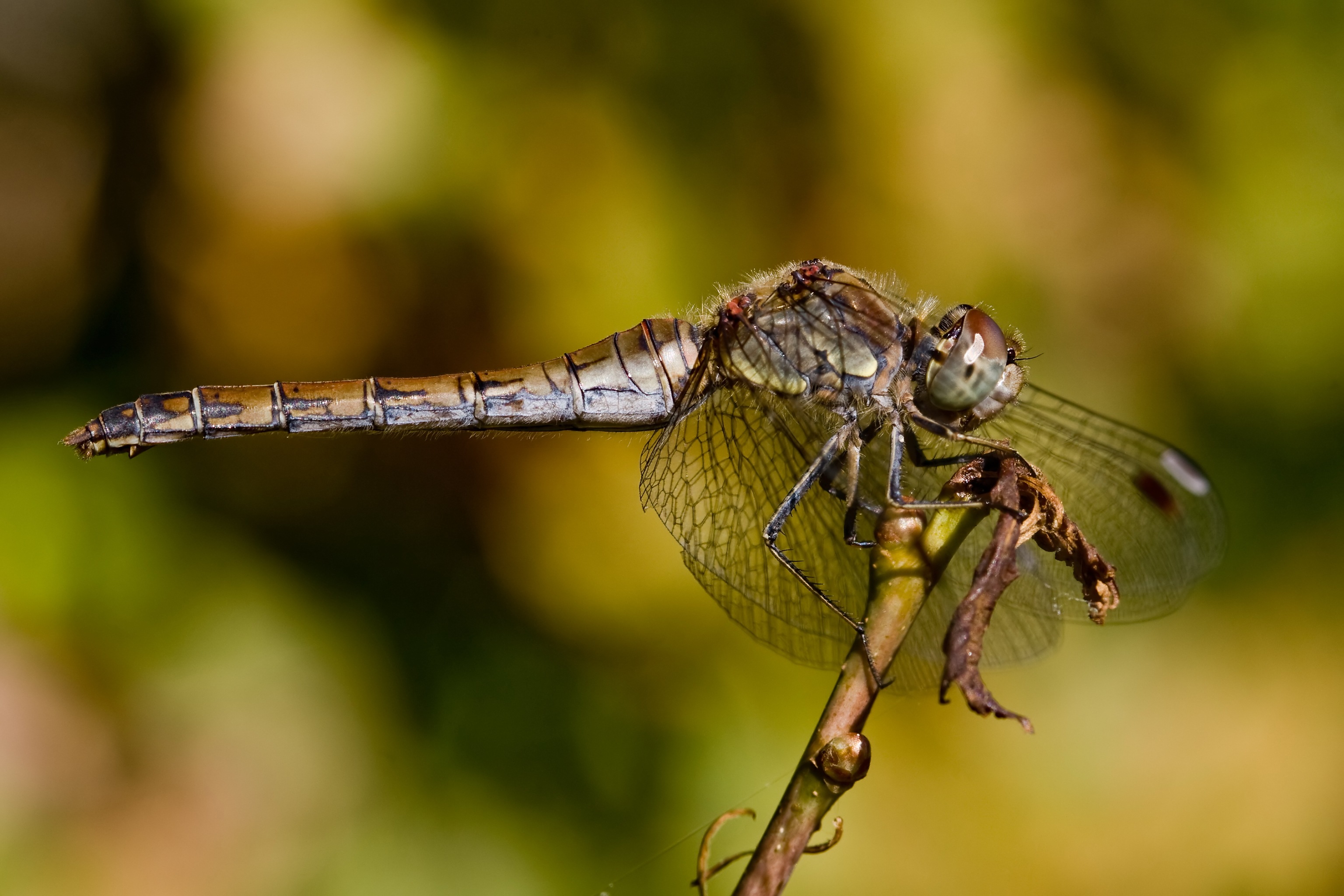 Older Female of the Common Darter (Sympetrum striolatum) in the nature reserve Cuxhavener Küstenheiden, northern Lower Saxony, Germany. Consider the light red coloration along the median line and the beginning blue pruinosity of the abdomen, which marks an older female.